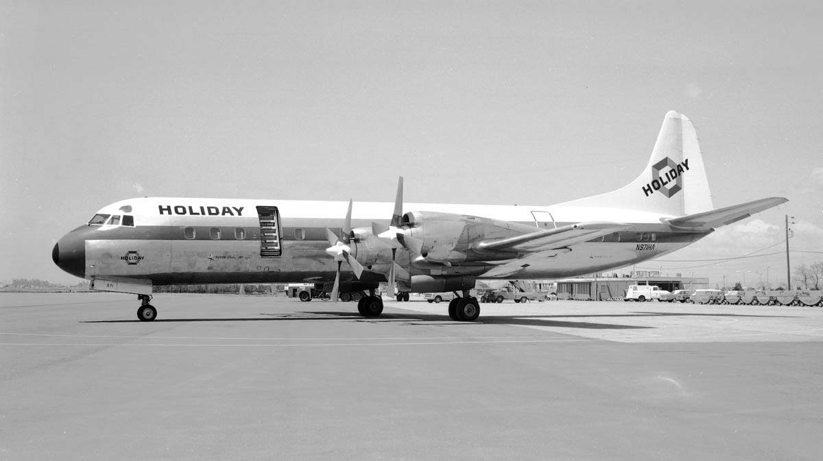 N971HA at San Jose, CA, in April 1969.